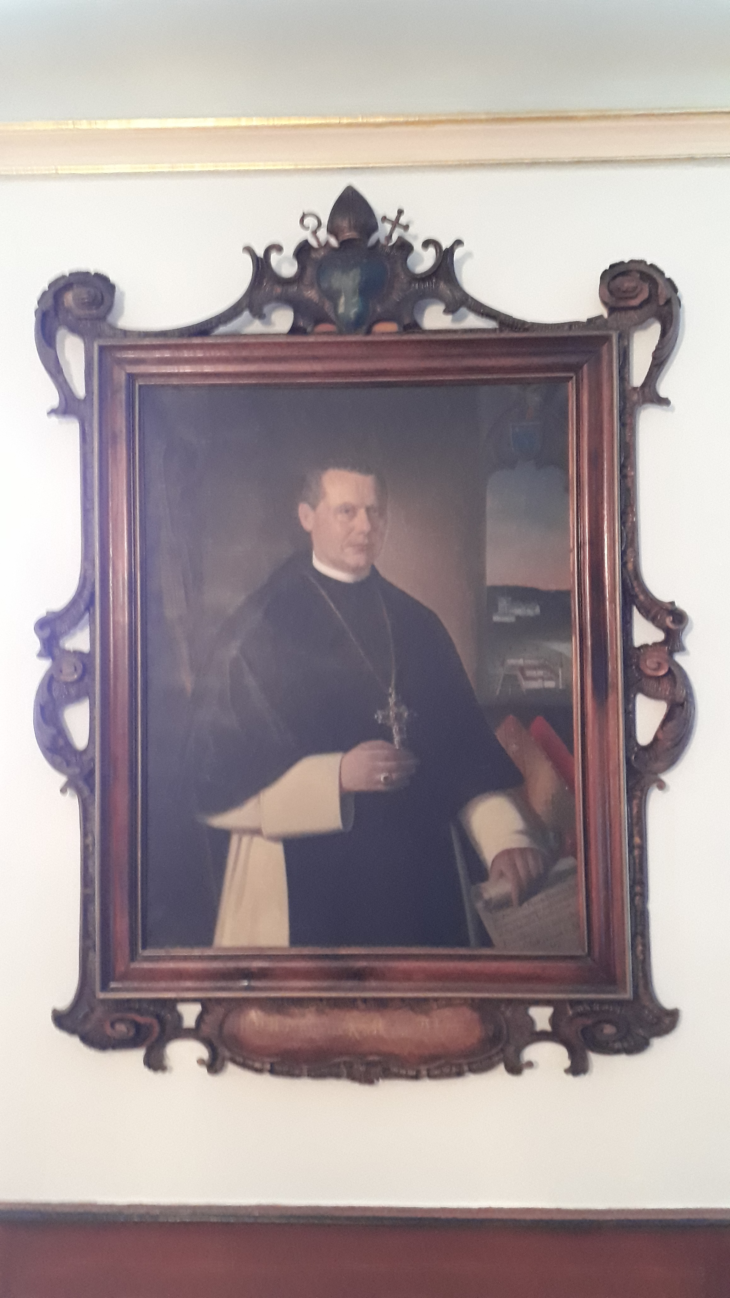 Mehrerau Abbey in Bregenz (Wettingen-Mehrerau Territorial Abbey), Vorarlberg, Austria. Painting.